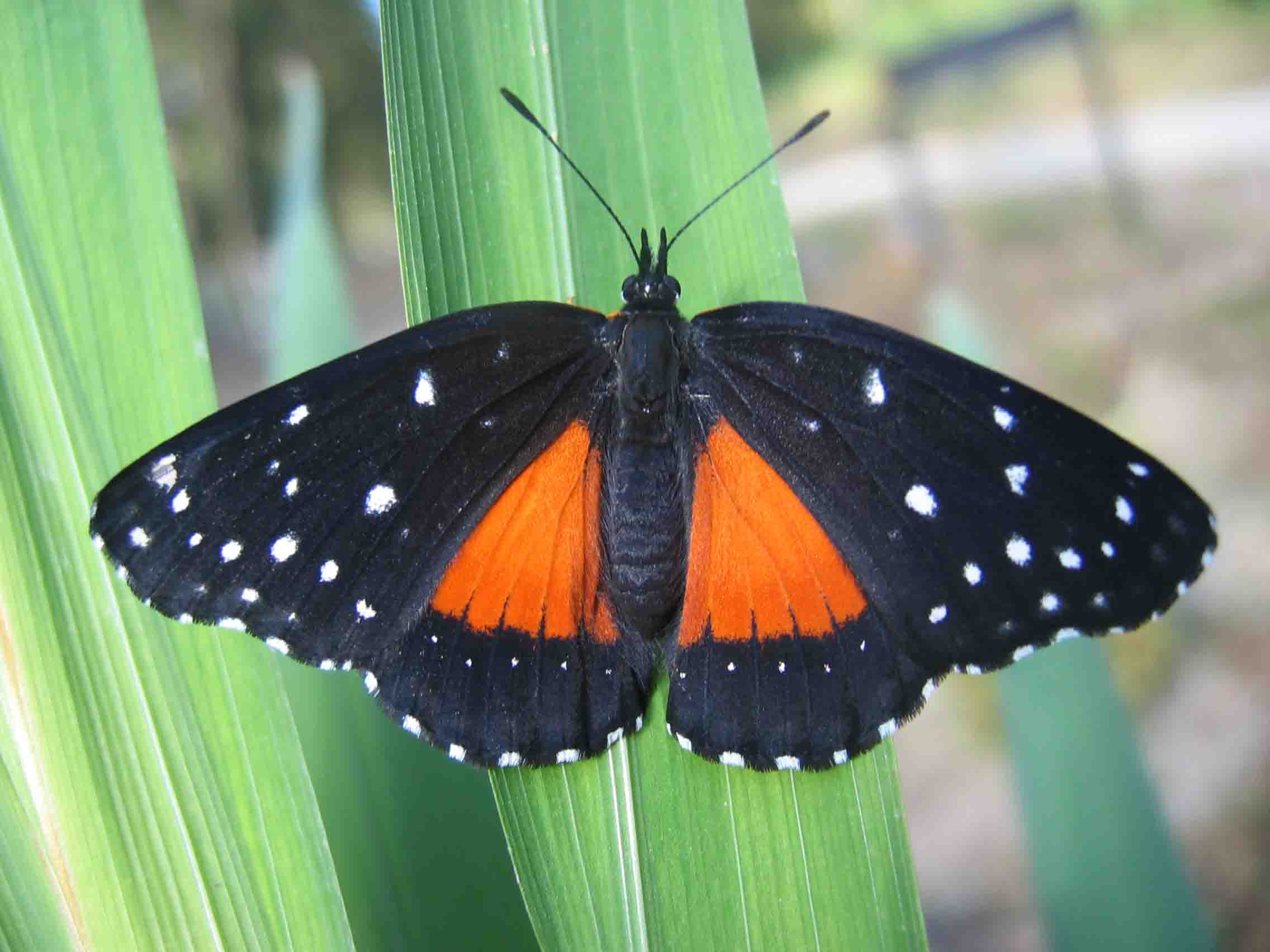 Photograph by Dirk van der Made (User:DirkvdM - for more photos see user:DirkvdM/Photographs). A Rosita Patch butterfly (Chlosyne rosita) near Orosí, Costa Rica, 3 February 2004. It was friendly enough to sit still so I could photograph it from the side and then opened it's wings so I could photograph it from the top. This is the latter. The former is thumb|120px|Crimson_Patch_2